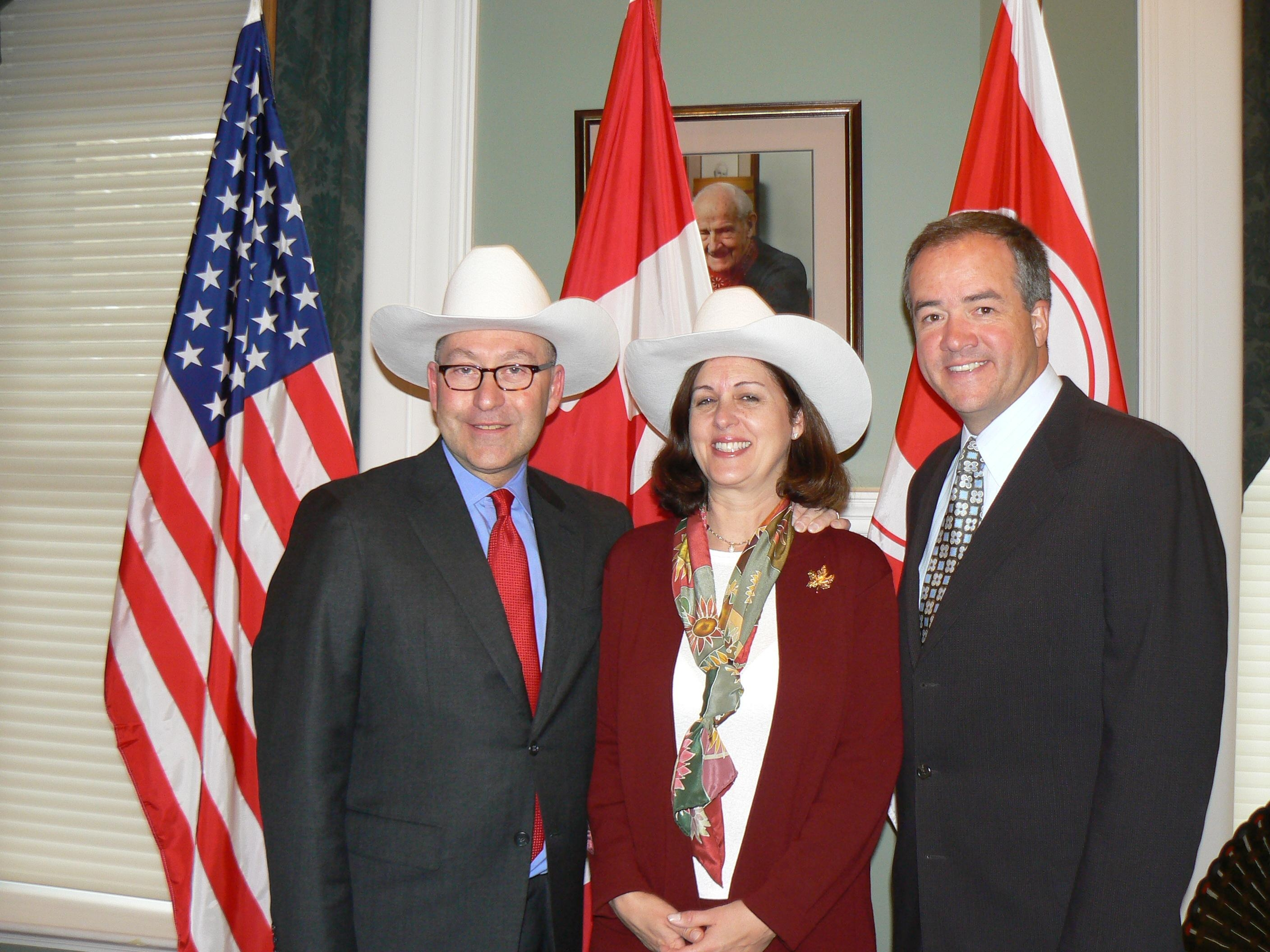 U.S. Ambassador to Canada, David Jacobson (left) and his wife, Julie , on their inaugural visit to Alberta. Calgary Mayor Dave Bronconnier is on the right. Description from U.S. Mission in Canada: Ambassador Jacobson visits Alberta for the first time Two weeks into his tenure as U.S. Ambassador to Canada, David Jacobson visited Alberta to meet with government, business, academic and community leaders, students and media. In Calgary, the Ambassador and his wife Julie were welcomed to the city by Mayor Dave Bronconnier with a traditional white-hat ceremony. Ambassador Jacobson also participated in a business roundtable organized by the Calgary Economic Development Authority, spent time talking to students at the University of Calgary and attended a dinner hosted by the University of Alberta -Calgary Centre. The following day, he toured the Alberta oil sands, accompanied by industry representatives and provincial government officials, to learn more about operations there and related environmental issues as well as the steps being taken to address them. His tour included a meeting with Chief Jim Boucher of the Fort McKay First Nation to learn more about the concerns of aboriginal people in the region. The Ambassador’s first trip to Alberta also included a stop in Red Deer to have coffee with local government representatives and community leaders and speak to media.